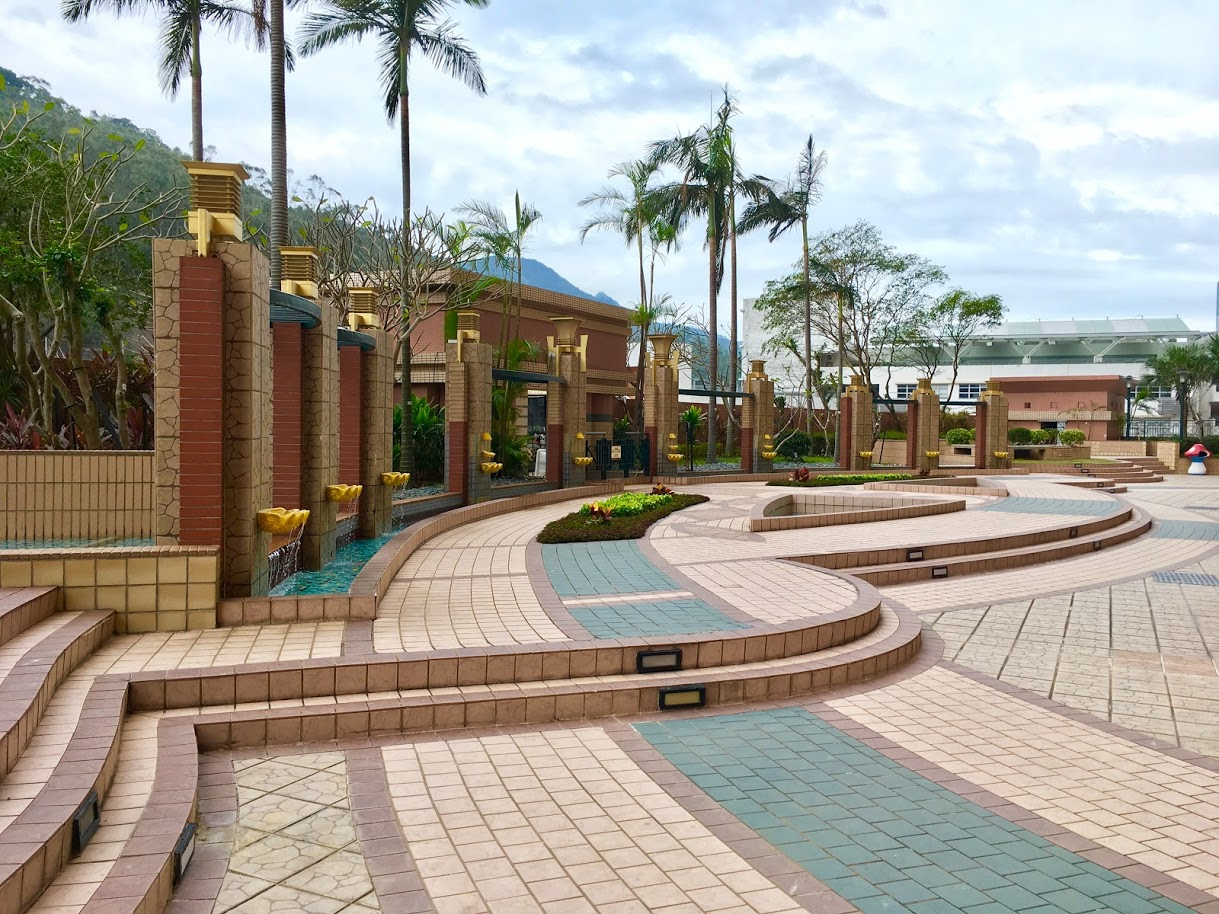 OBTS Podium